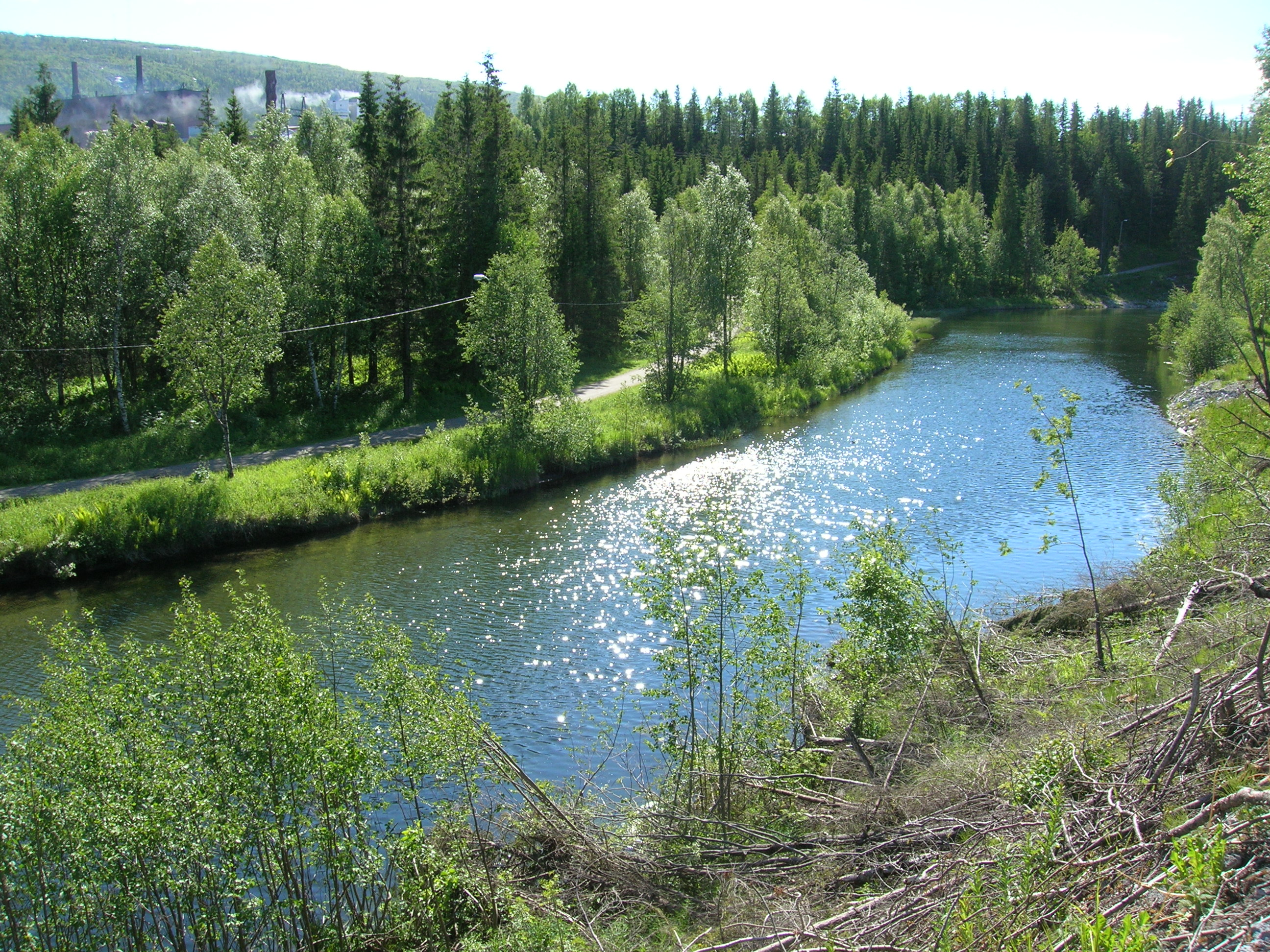 The river Tverråga seen from the road to Hammeren, Gruben in Mo i Rana, Rana municipality, Nordland, Norway. Photo June 17, 2007 with a Nikon Coolpix 5600 5,1 Megapixel camera.